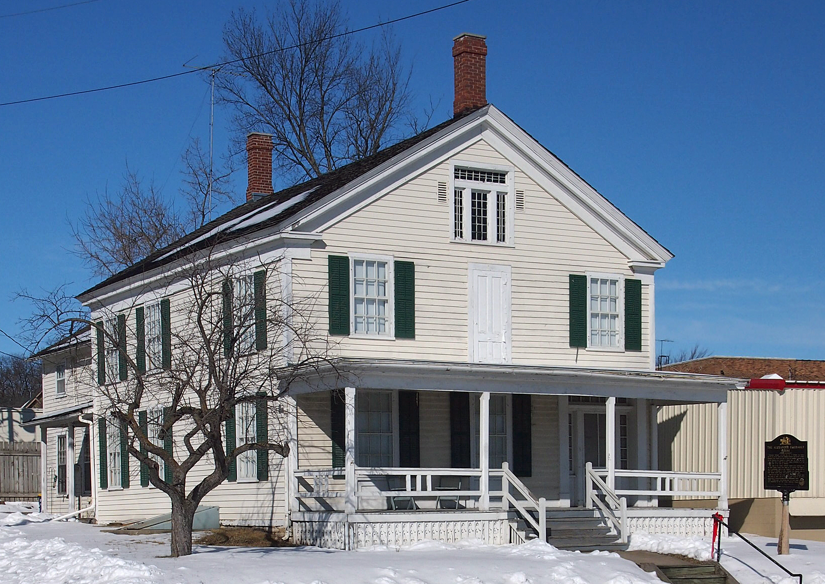 Alexander Faribault House, 12 1st Ave NE, Faribault, Minnesota, USA. Viewed from the east.